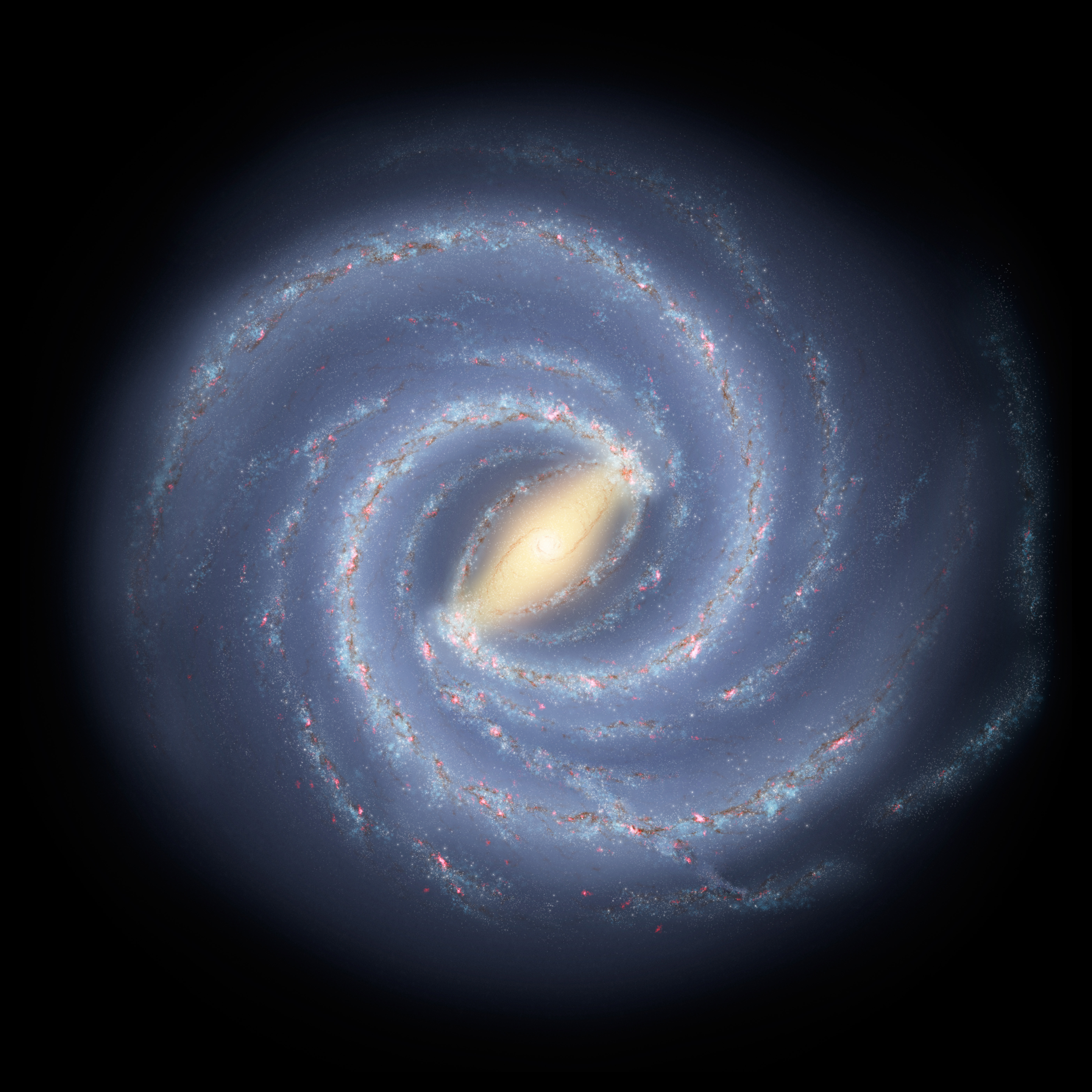 Updated map of Milky Way, added new discovered branch of the Orion Spur, added Perseus Transit